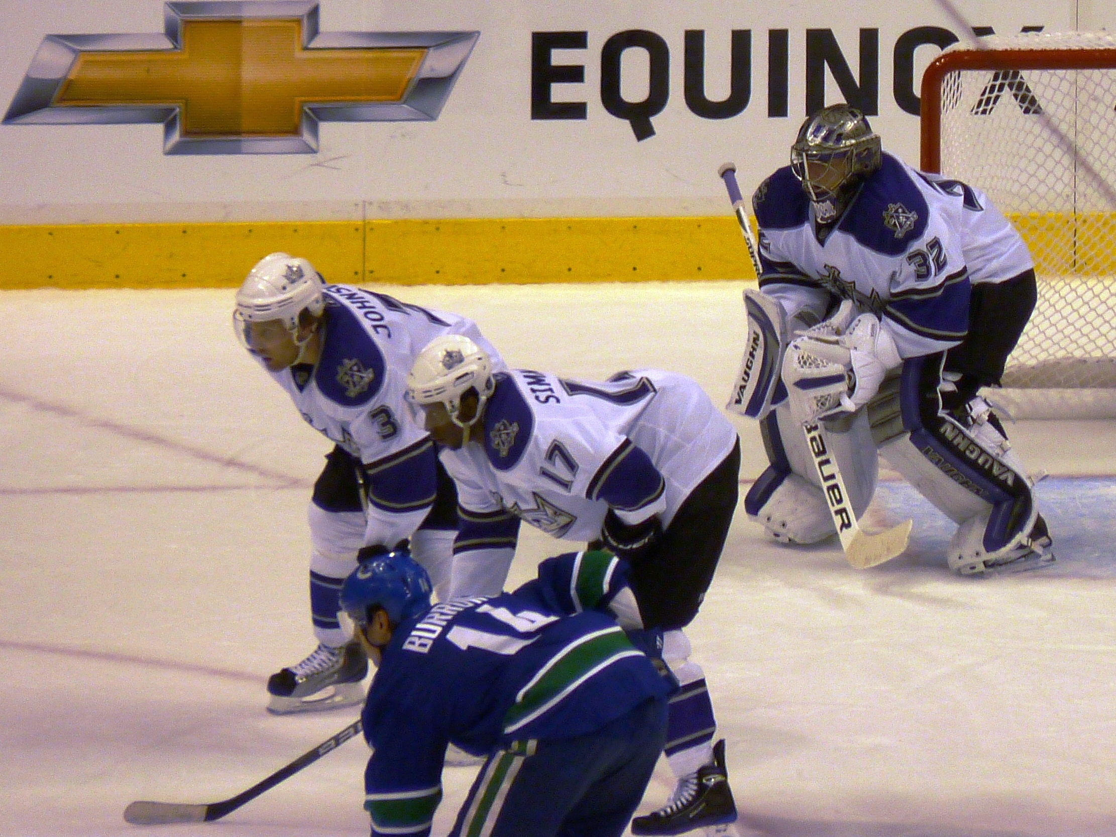 LA @ Van, Round 1 of Stanley Cup Playoffs